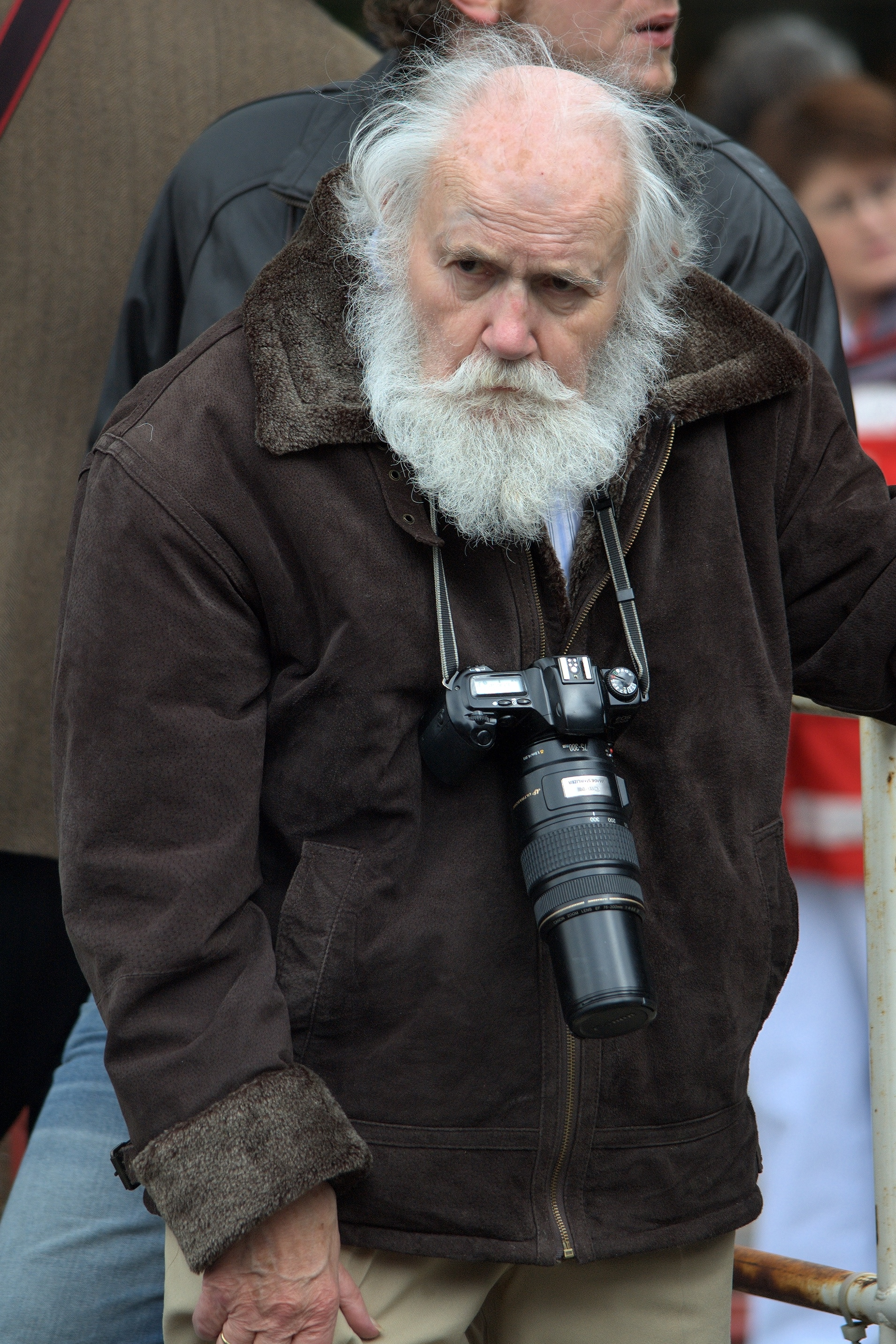 Camillo Fischer, german photographer, 2005